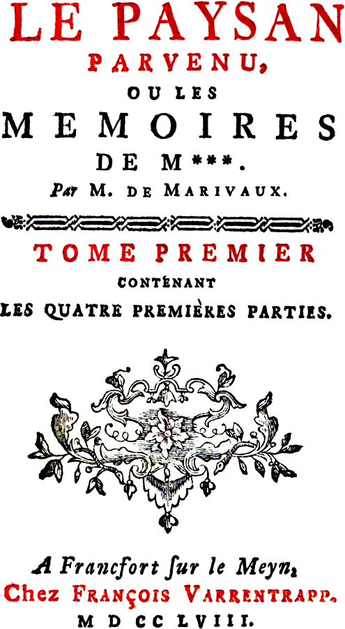 Cover of The Upstart Peasant (1735-) by Pierre de Marivaux (1688-1763)